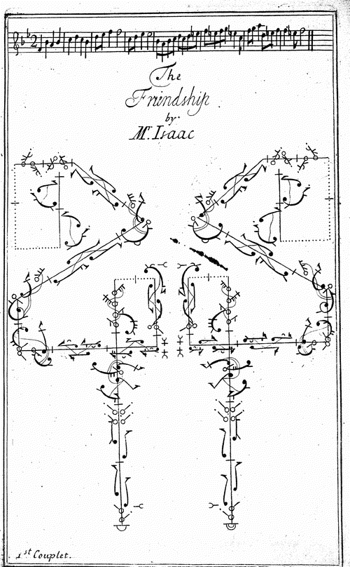 Page from The friendship: Mr. Isaac's new dance for the year 1715